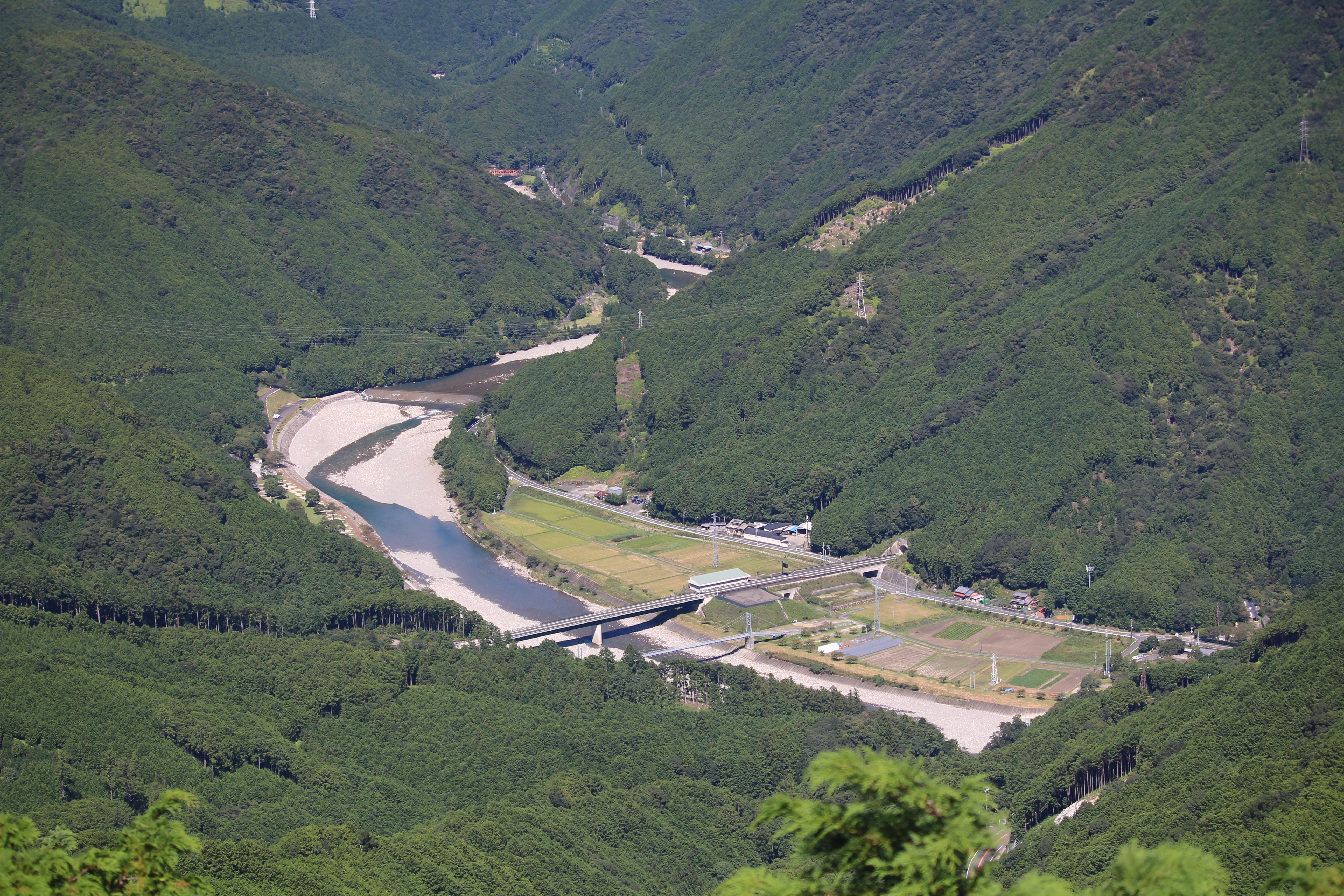 Choshi River seen from Mount Tengura in Kihoku, Mie prefecture, Japan.